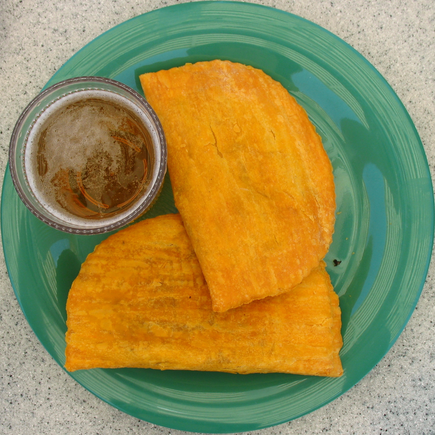 This may now be my all time favorite food ever. Ground beef, spices, deep fried in a flaky turnover crust. I ate about two hundred of them on my trip.